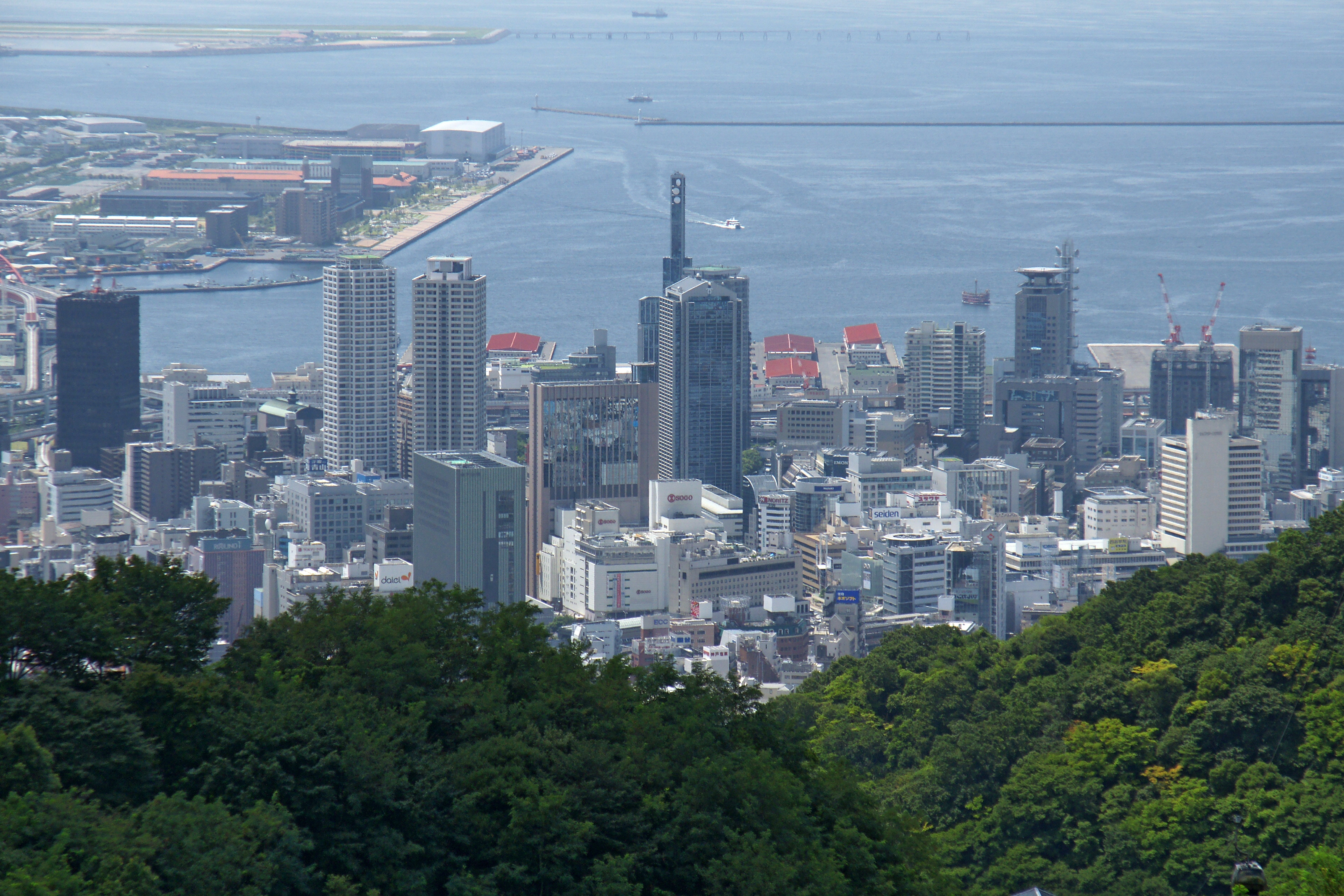 Sannomiya, Kobe, Hyogo prefecture, Japan